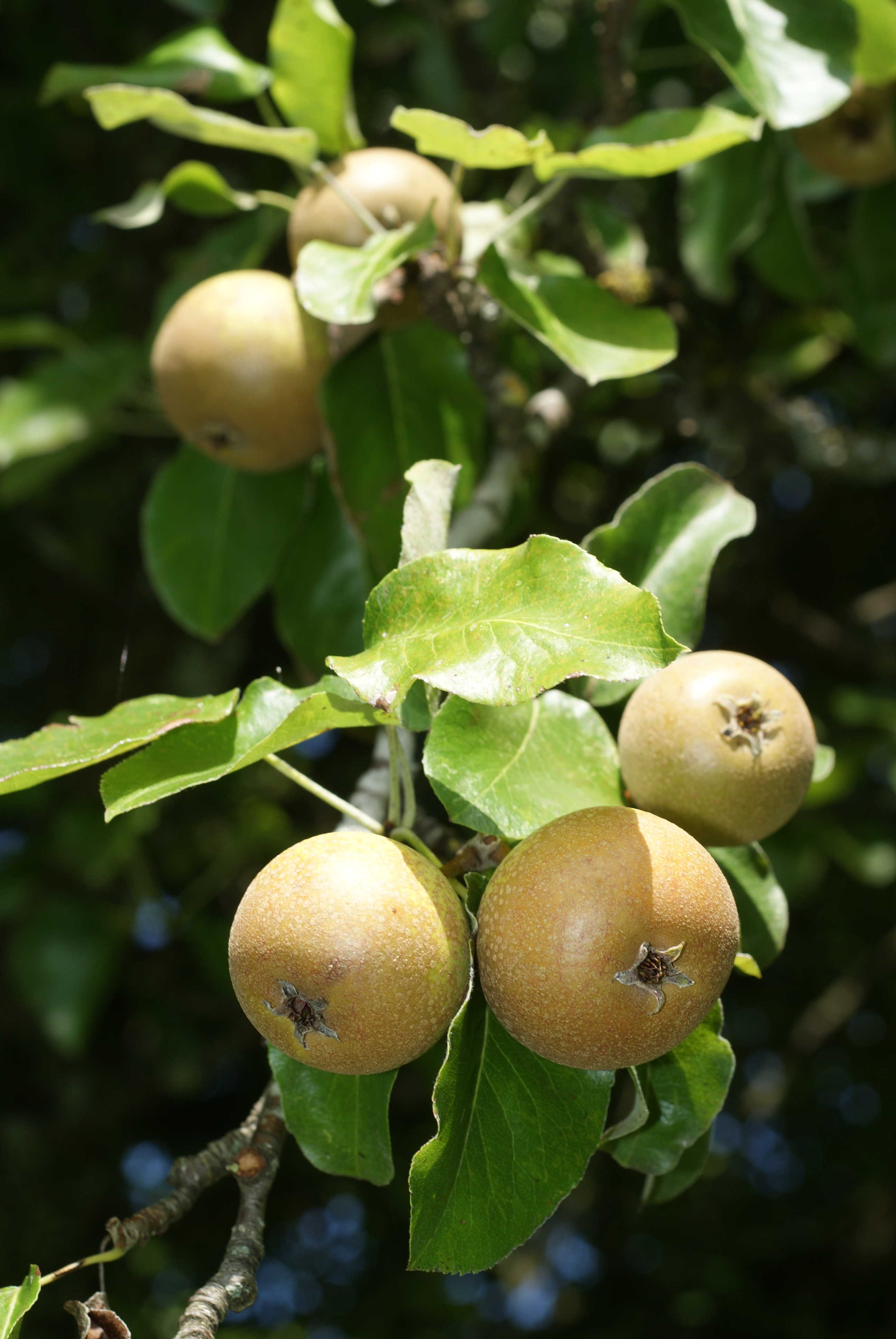 Fruit of the Swiss pear variety "Trübler".